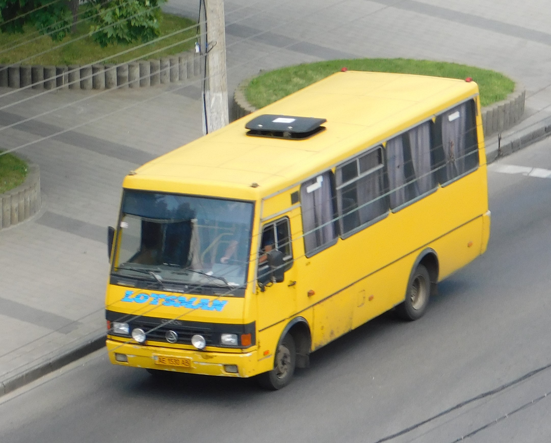 Yellow minibus lotsman moving near waterfront in Dnipro, Ukraine.